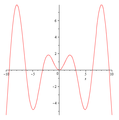 1D Plotting in Maple